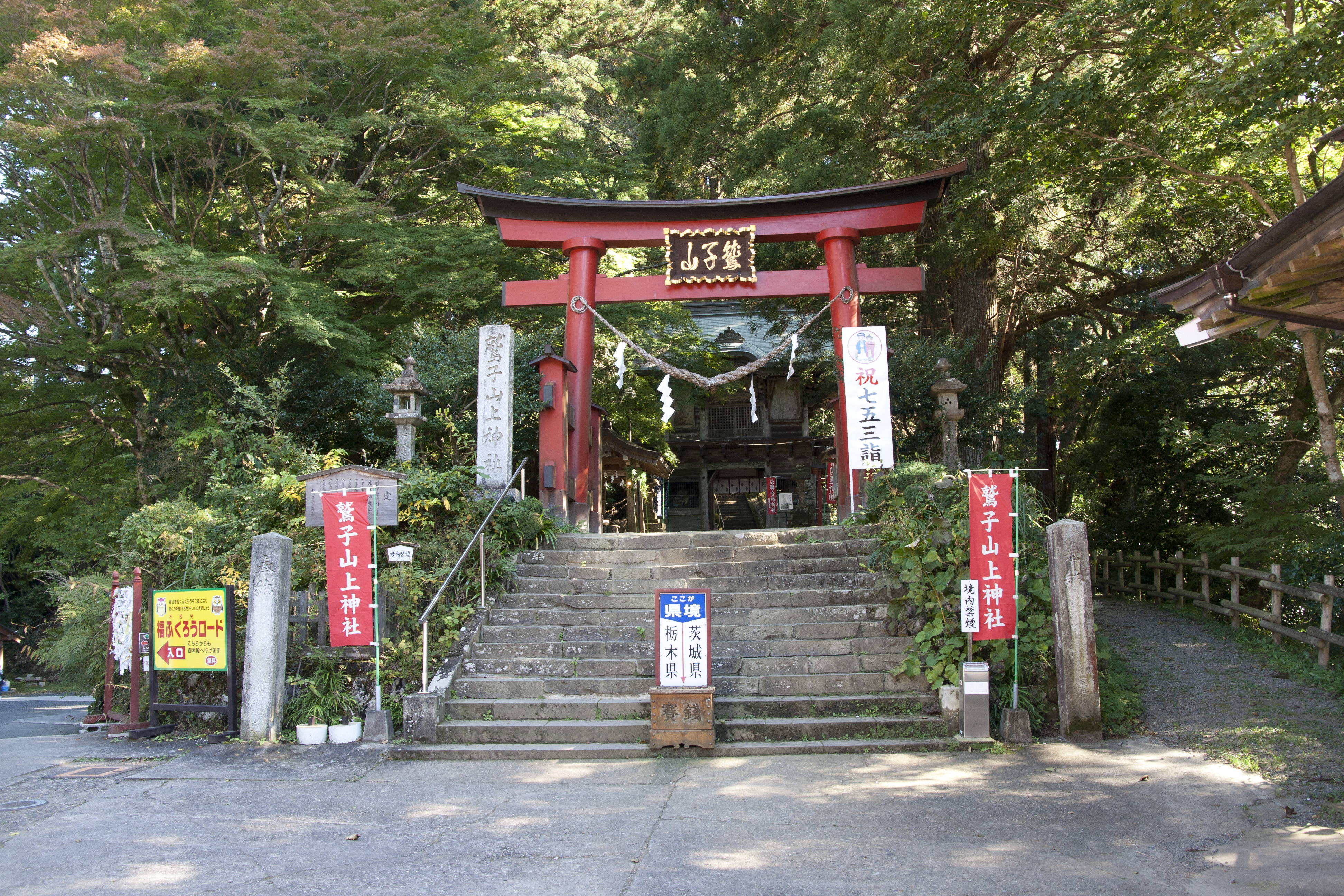 Torinoko-Sanjo Shrine（鷲子山上神社 とりのこさんじょうじんじゃ）, Ibaraki and Tochigi Prefectures, Japan